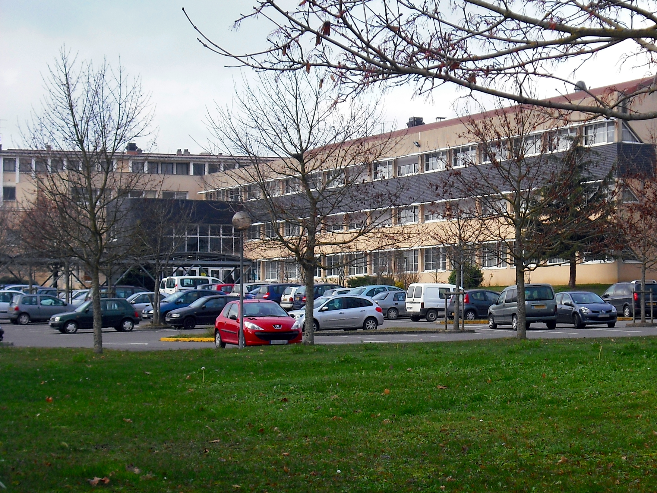 A French high school located in Étampes (Essonne, Île-de-France).